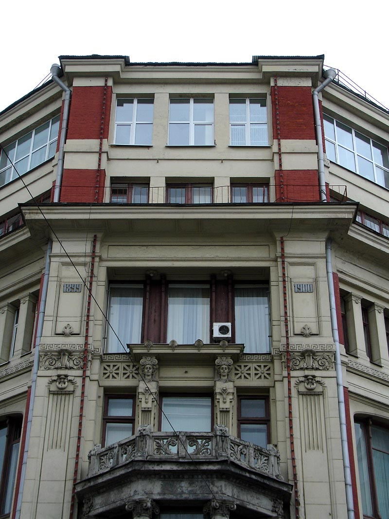 6, Kuznetky Most Street, Moscow. The A. C. Khomyakov building, originally used by Muir and Mirillies department store. Design by Illarion Ivanov-Schitz